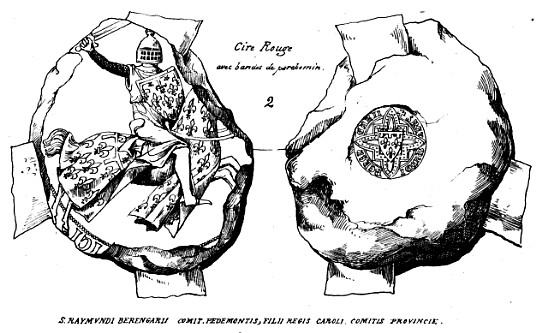 Raymond Berengar of Andria